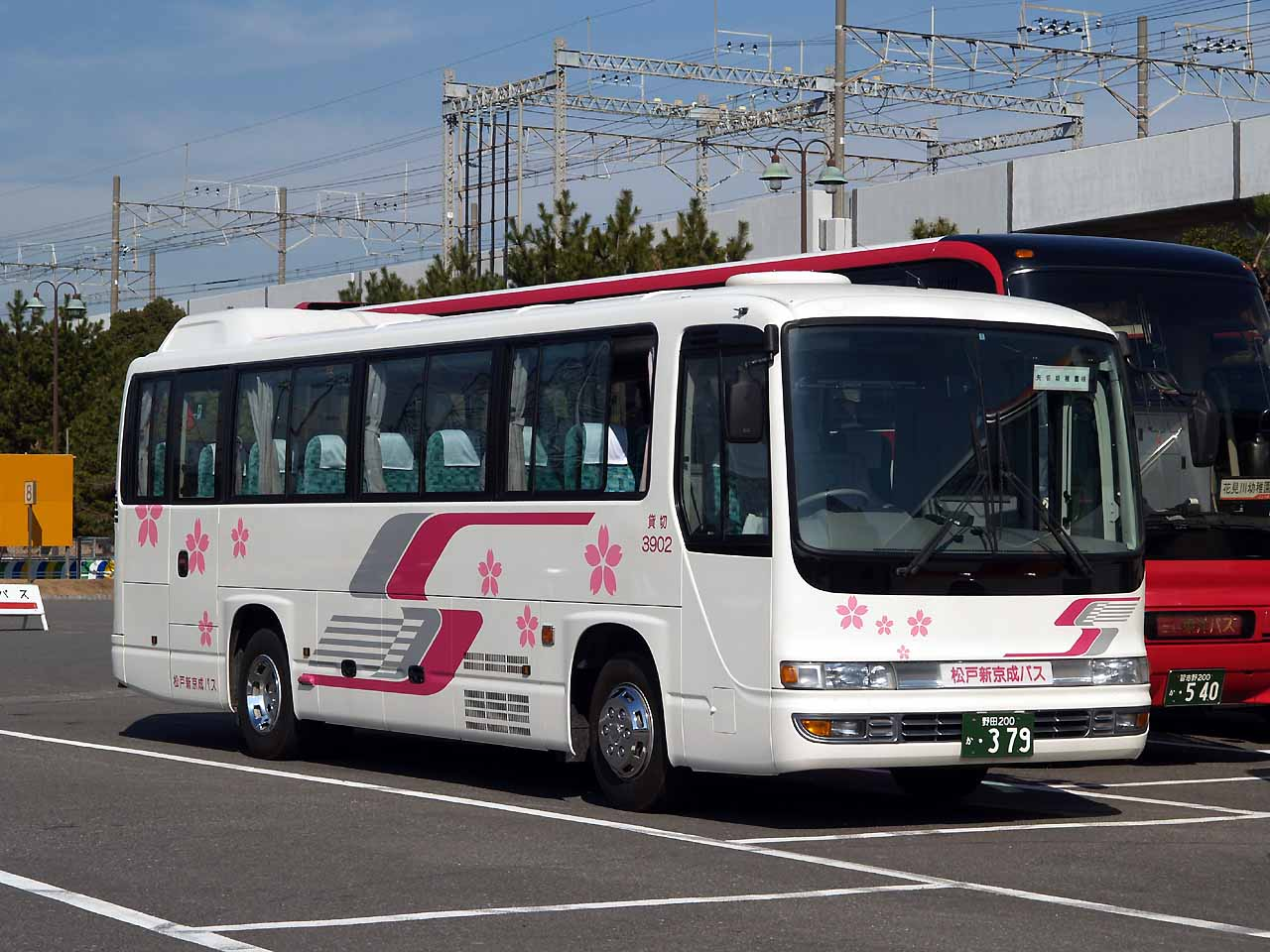 Fleet of Matsudo Shin-keisei Bus, middle-size sightseeing coach. Model: Isuzu Gala Mio PB-RR7JJAJ (Hino Melpha 9 OEM) License plate: CBD200 KA0379 Place: Kasai Rinkai Park: Edogawa, Tokyo Japan